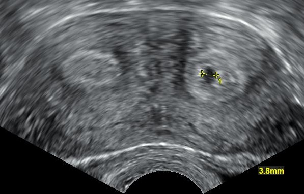 Transvaginal ultrasound showing a cross-section of a bicornuate uterus, with two cavities or "horns" visible at left and right, respectively. In the "horn" to the right, a gestational sac is visible, with a diameter of 5.7mm, corresponding to a gestational age of between 4 and 5 weeks. This projection did not not transect the maximal diameter, thus giving a bit smaller diameter in the image. The patient sought medical care because of a positive pregnancy test despite having a intrauterine device (IUD) with copper, presumably because the IUD was located in the other "horn".